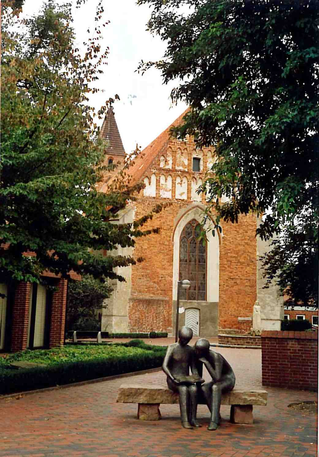 Monastary church in Lilienthal, Lower Saxony, Germany.